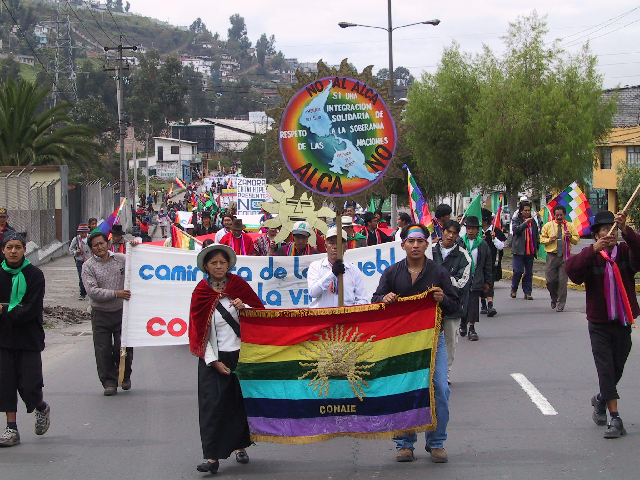 Members of the Confederation of Indigenous Nationalities of Ecuador (CONAIE) march in Quito, Ecuador against the 2002 summit of the Free Trade Area of the Americas (FTAA/ALCA).